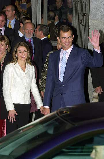 Princess Letizia and Prince Felipe in 2003